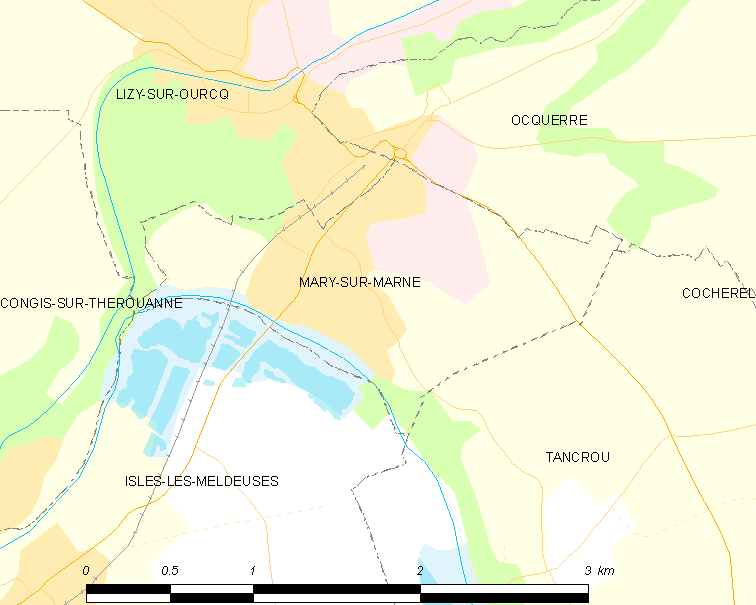 Map of French municipality Mary-sur-Marne